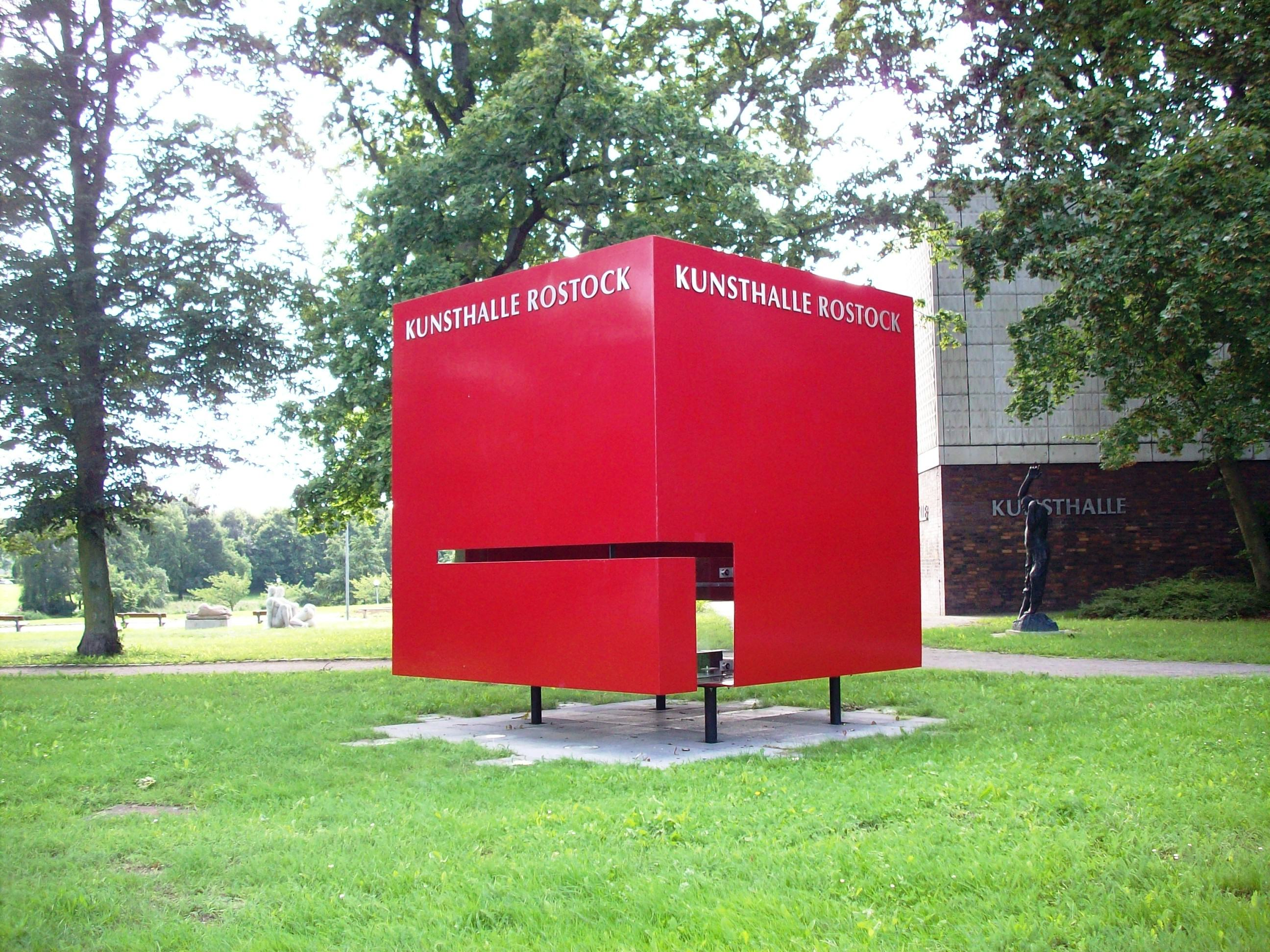 entrance Kunsthalle Rostock